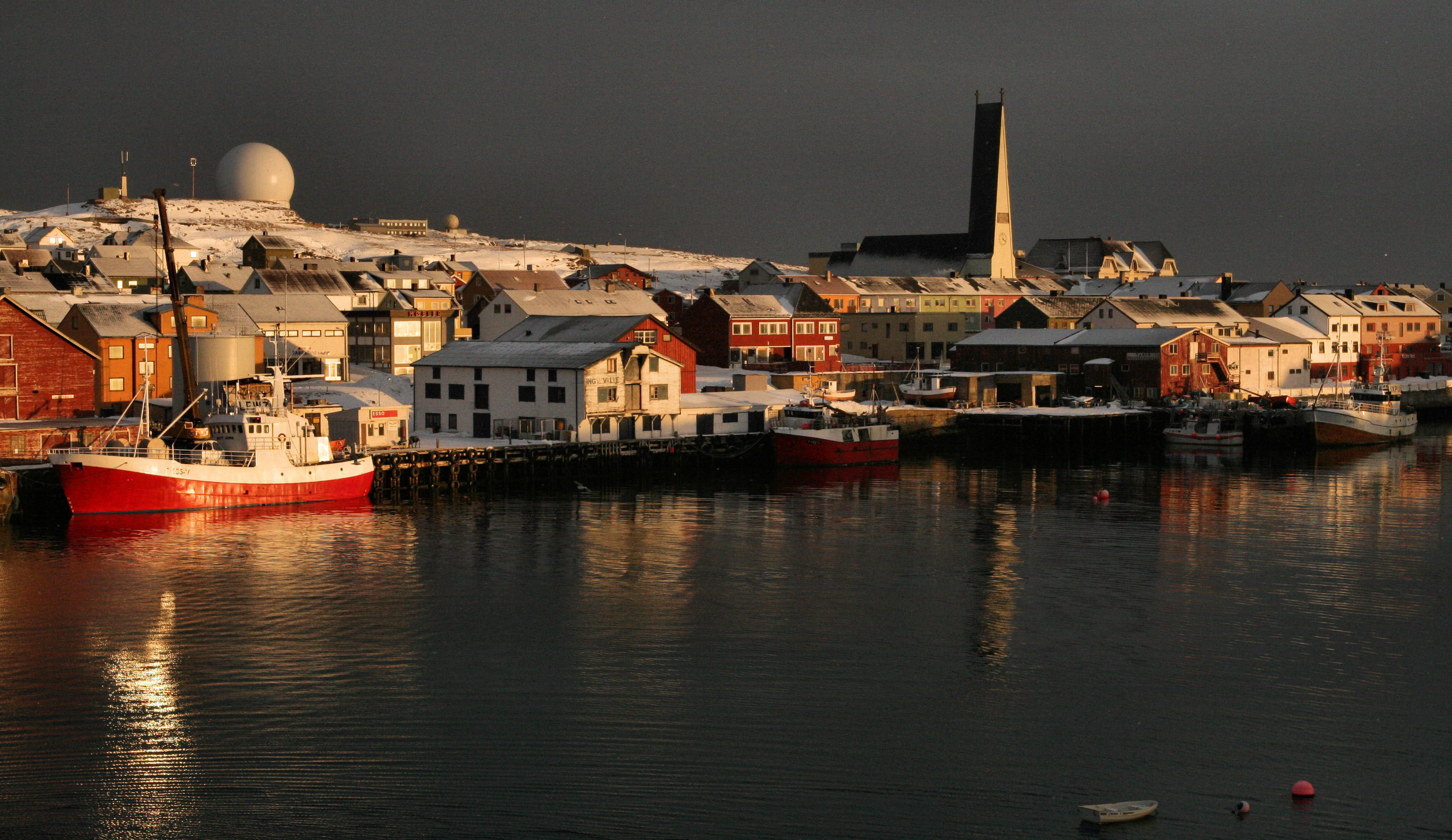 a winter afternoon in Vardø.View from an Hurtigruten ship.